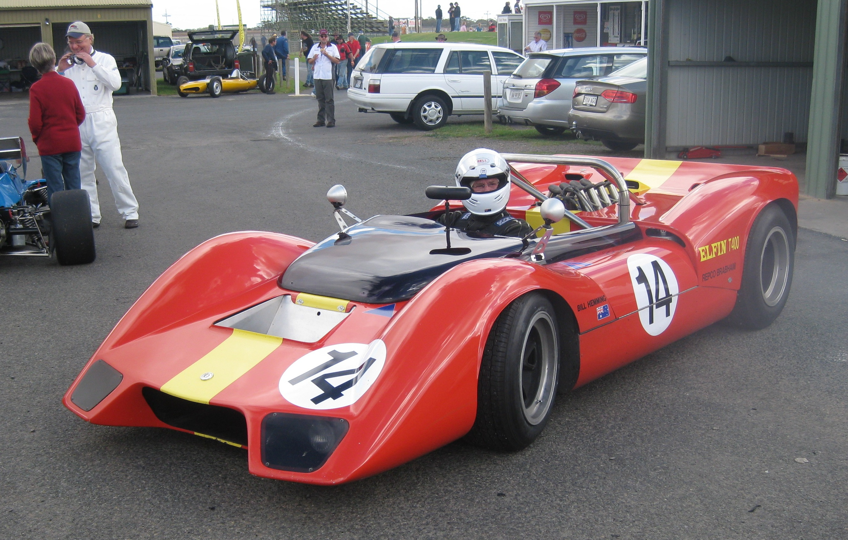 The Repco Brabham V8 powered Elfin 400 of Bill Hemming at Mallala Motor Sport Park on 23 April 2011. The car was built for Bob Jane by Elfin Sports Cars in 1967.